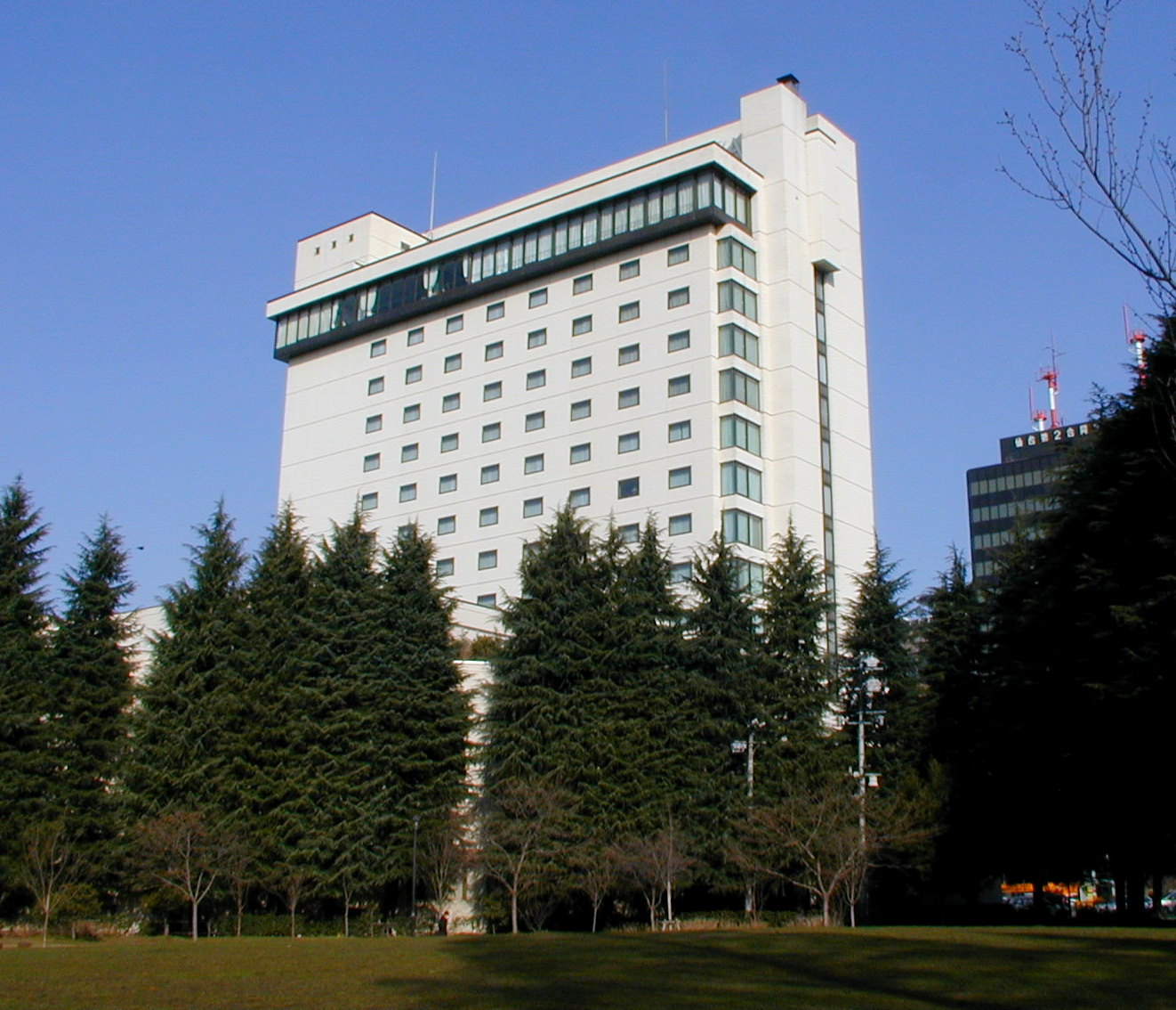 Hotel Sendai Plaza viewed from Nishikicho Park